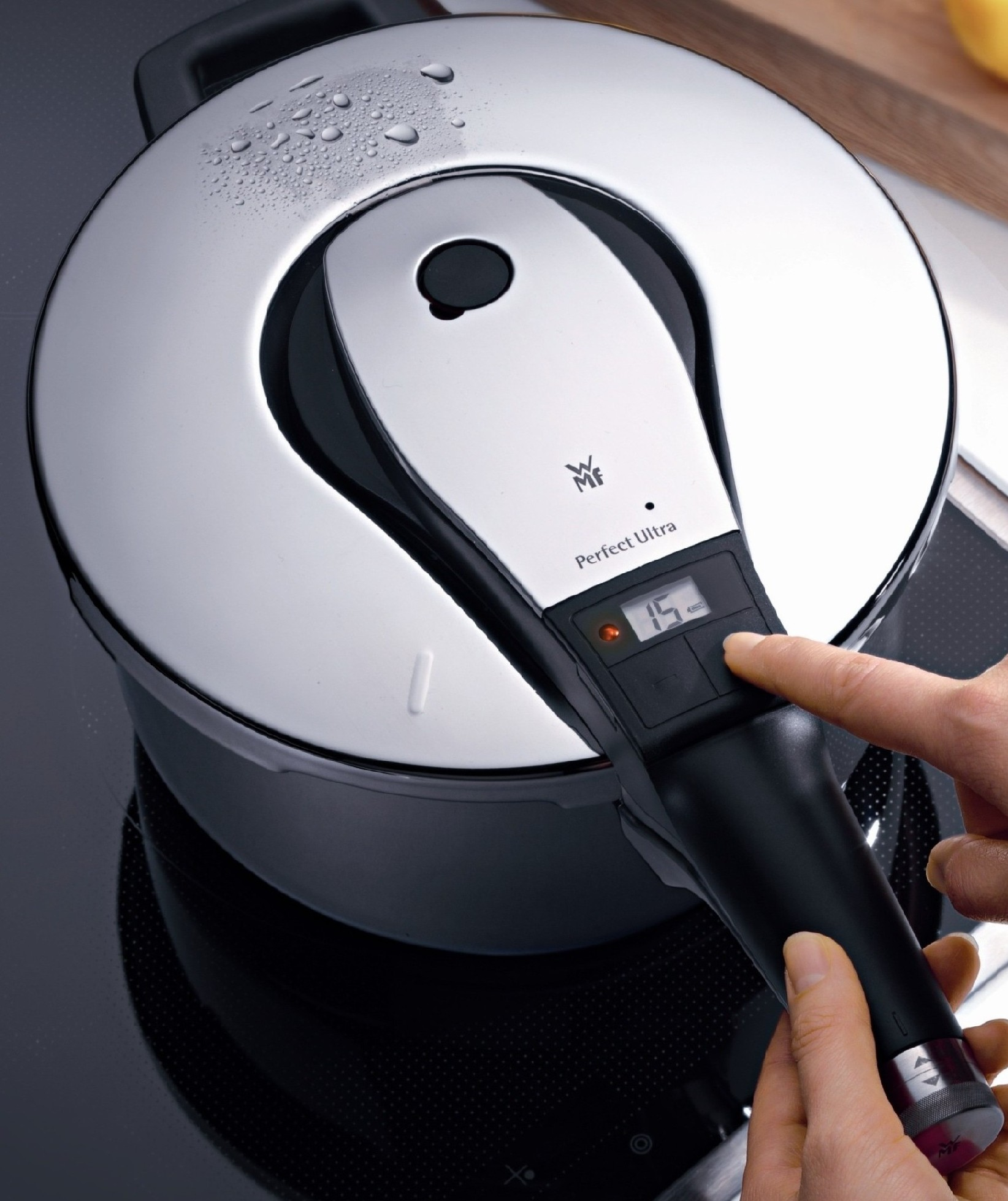 Pressure Cooker